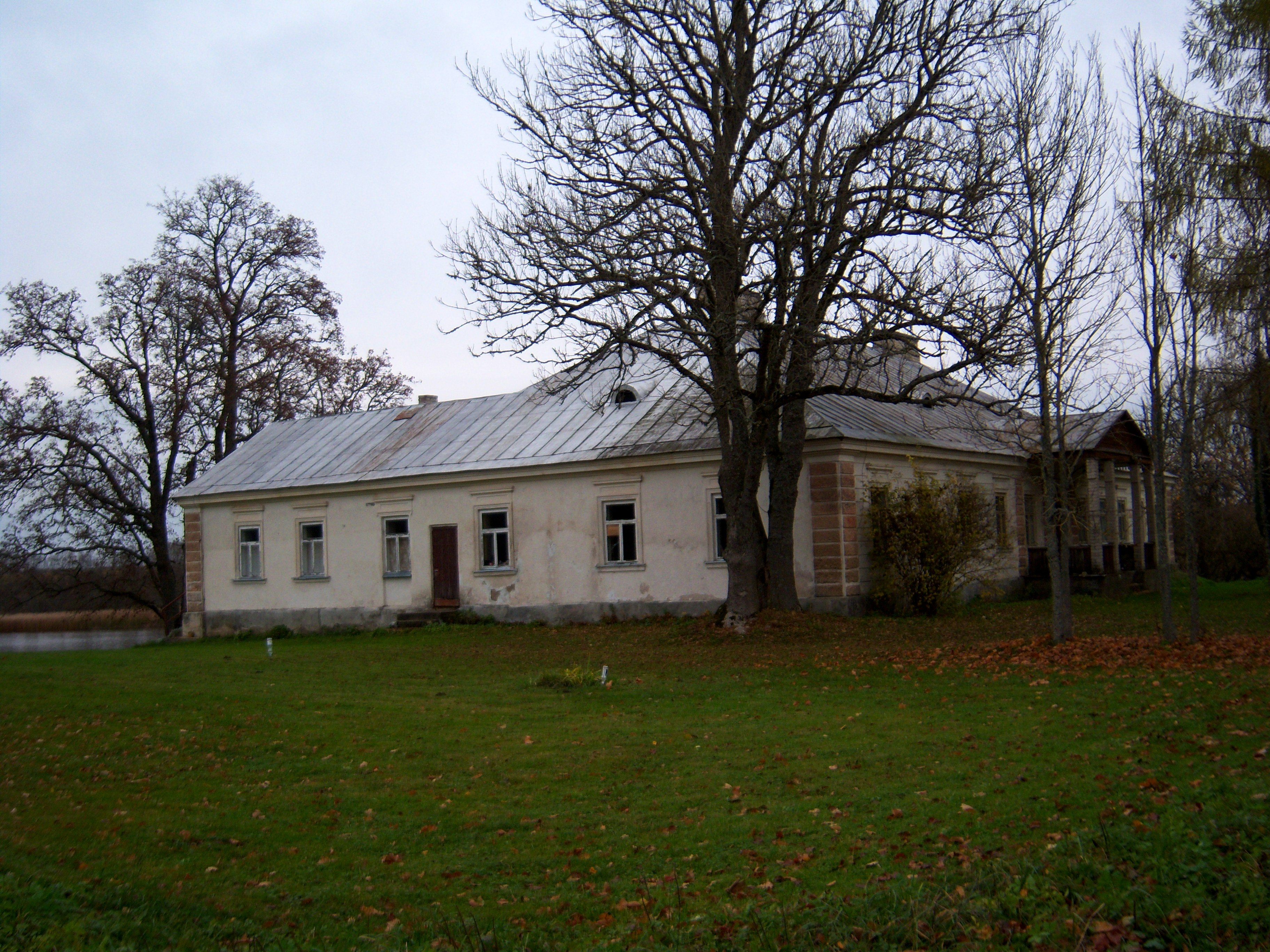 Former manor in Sedeikiai, Anykščiai District, Lithuania